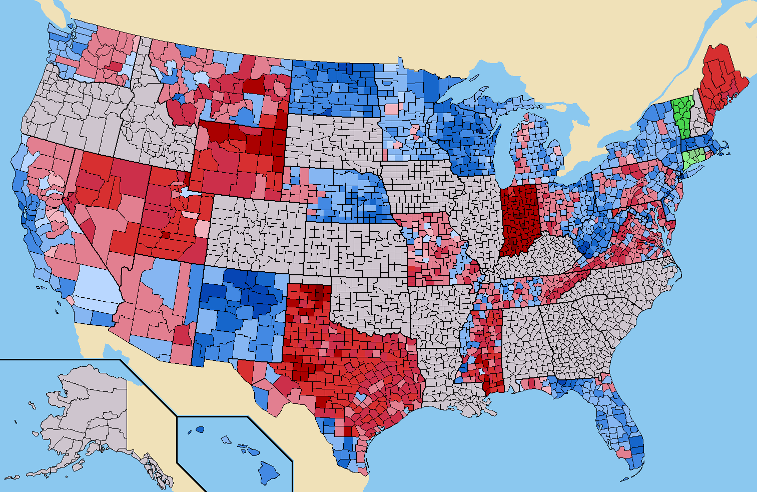 Map of the 2006 US Senate results. Note that both Independents caucused with the Democrats.